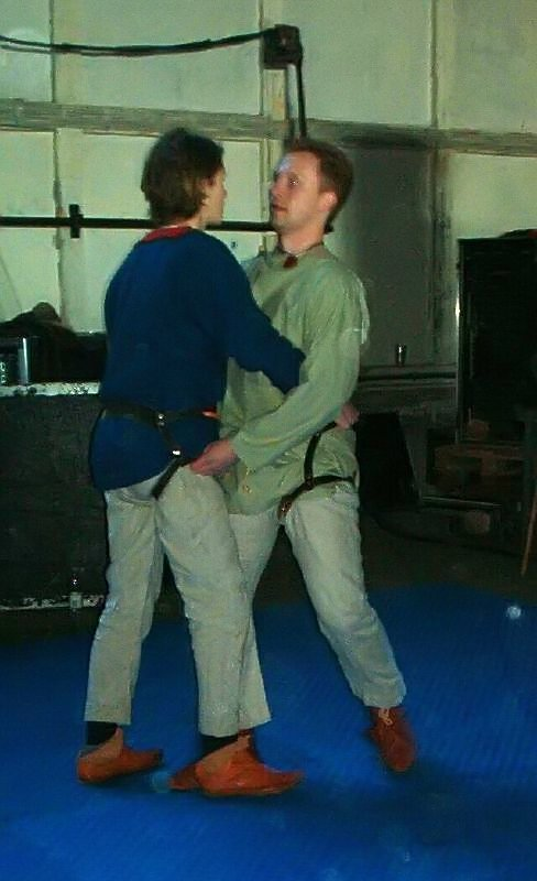 Glima at the Midvinterfestival in March 2006